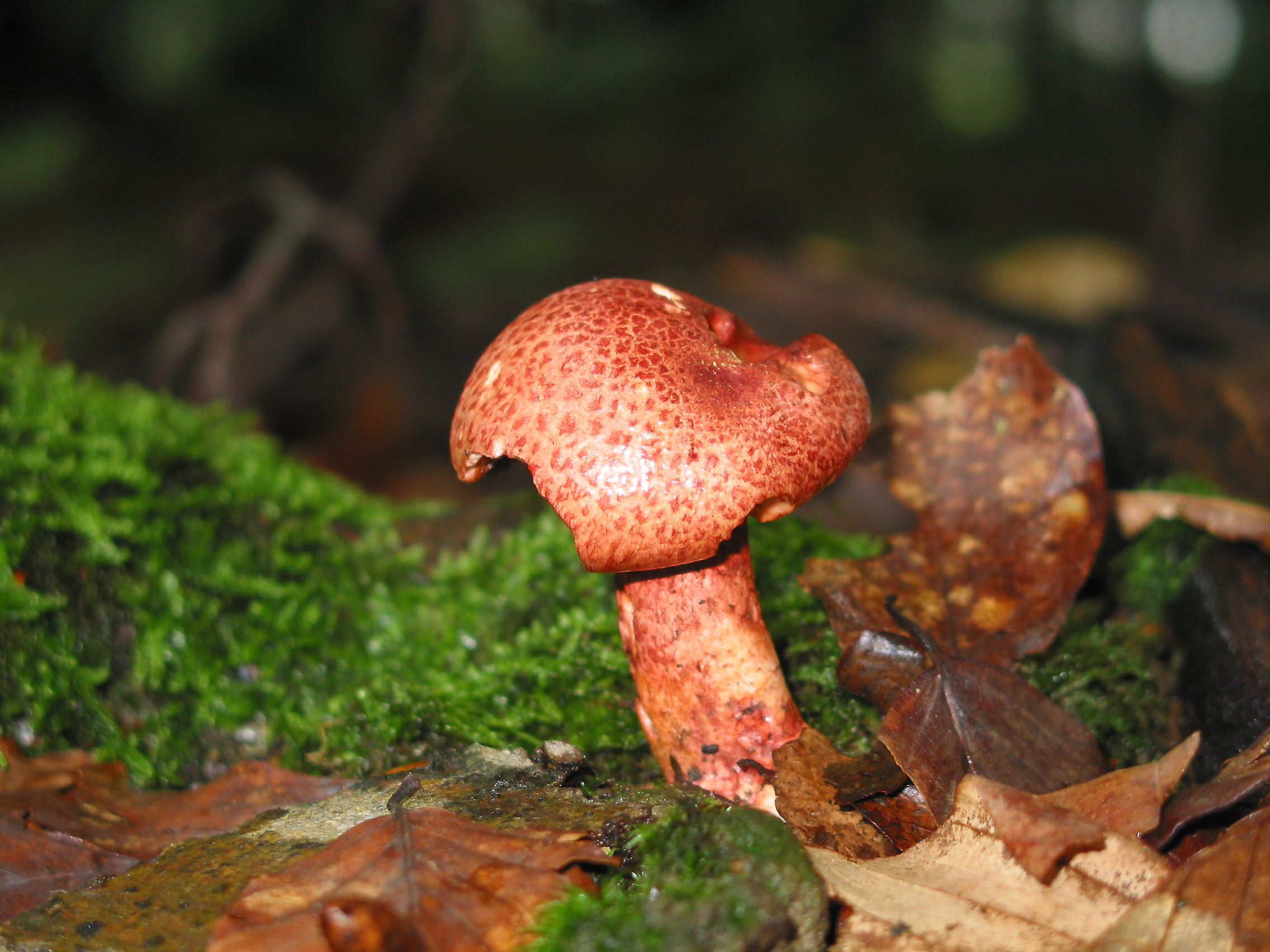 photo of Cortinarius bolaris taken in Mons (Belgium).